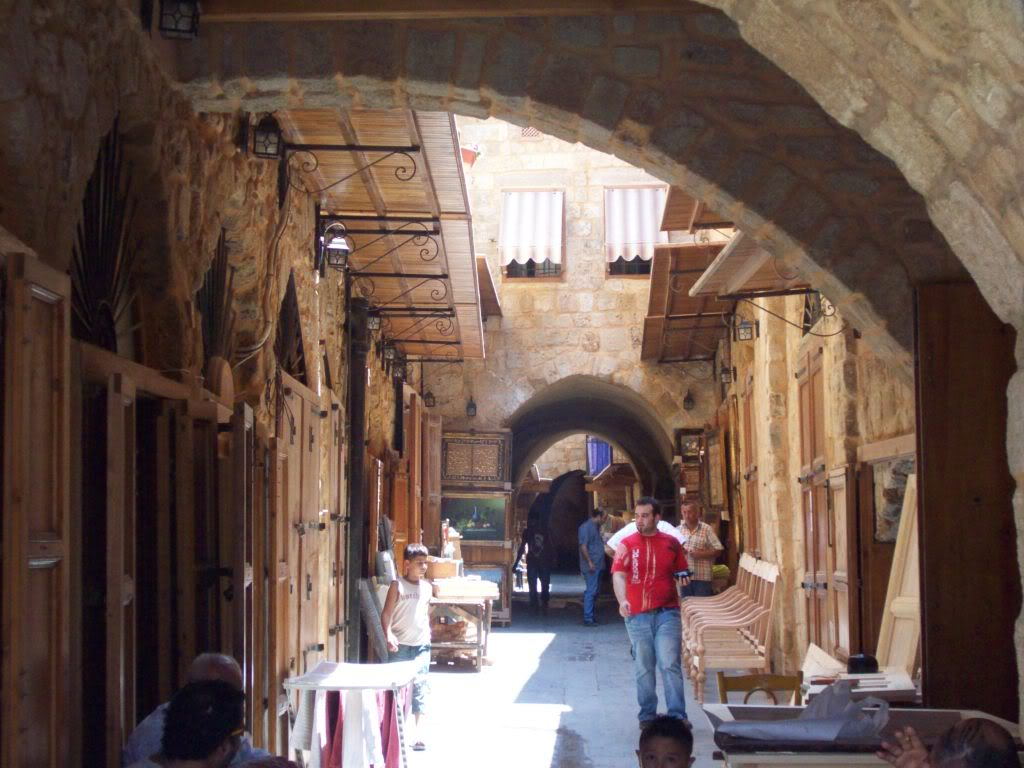 carpenters alley saida old city